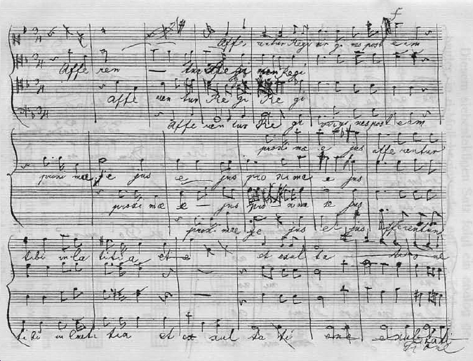 Sketch of Afferentur regi, p.1